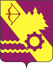 Vyatskie Polyany (Kirov oblast), coat of arms